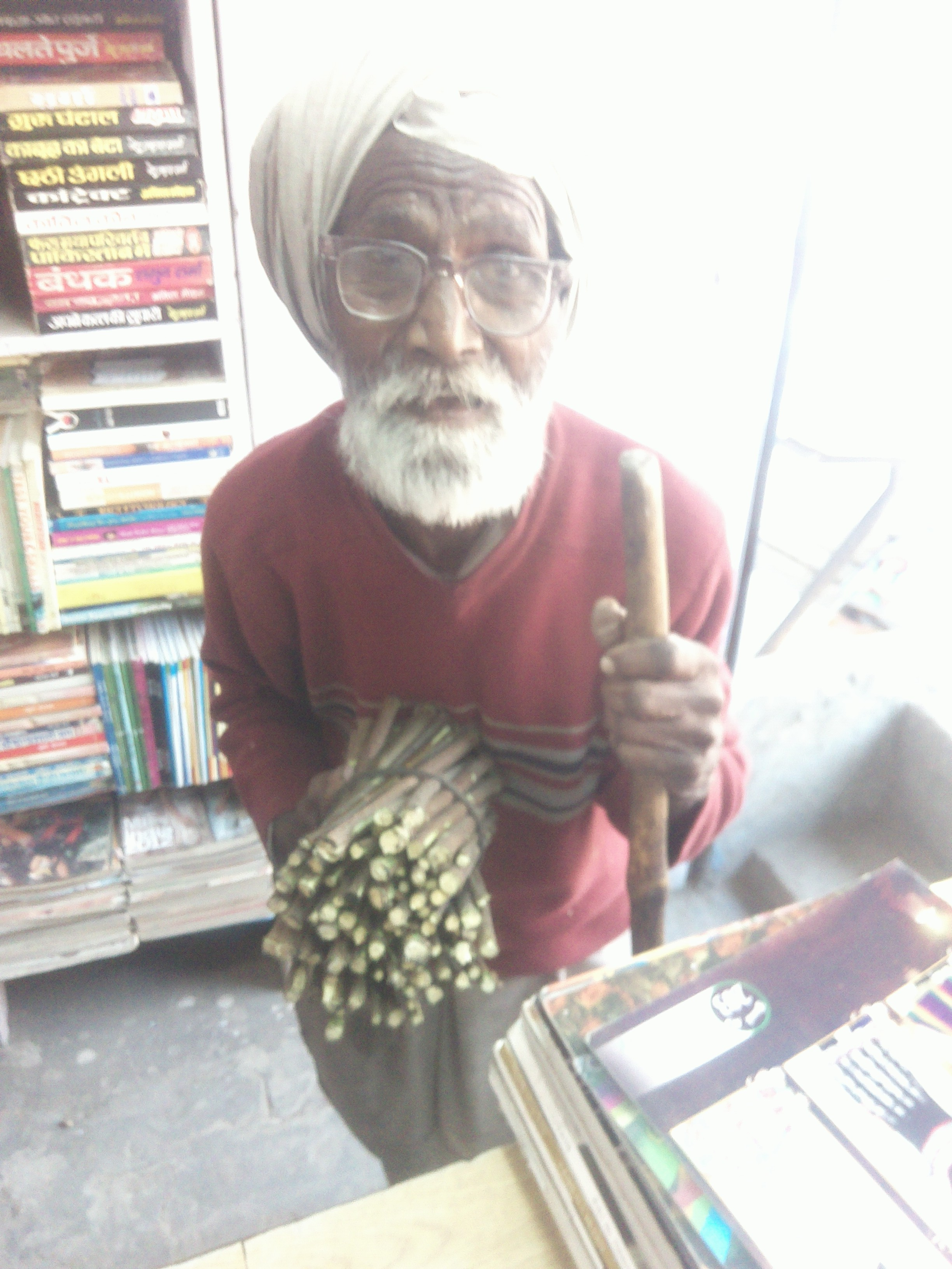 dattun seller ਪੰਜਾਬੀ: ਦਾਤਣਾ ਬੇਚਣ ਵਾਲਾ